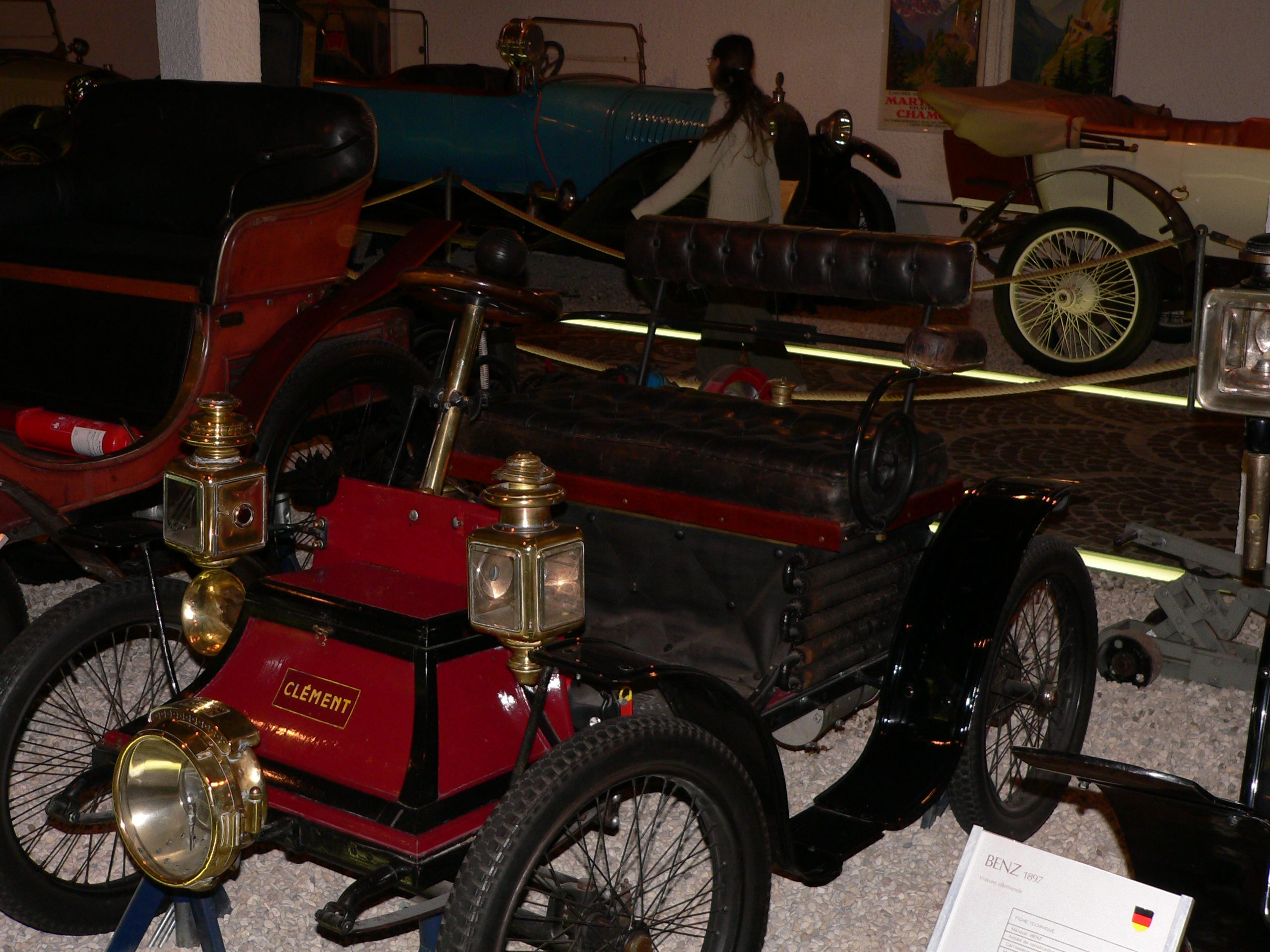 Clément De Dion 1898